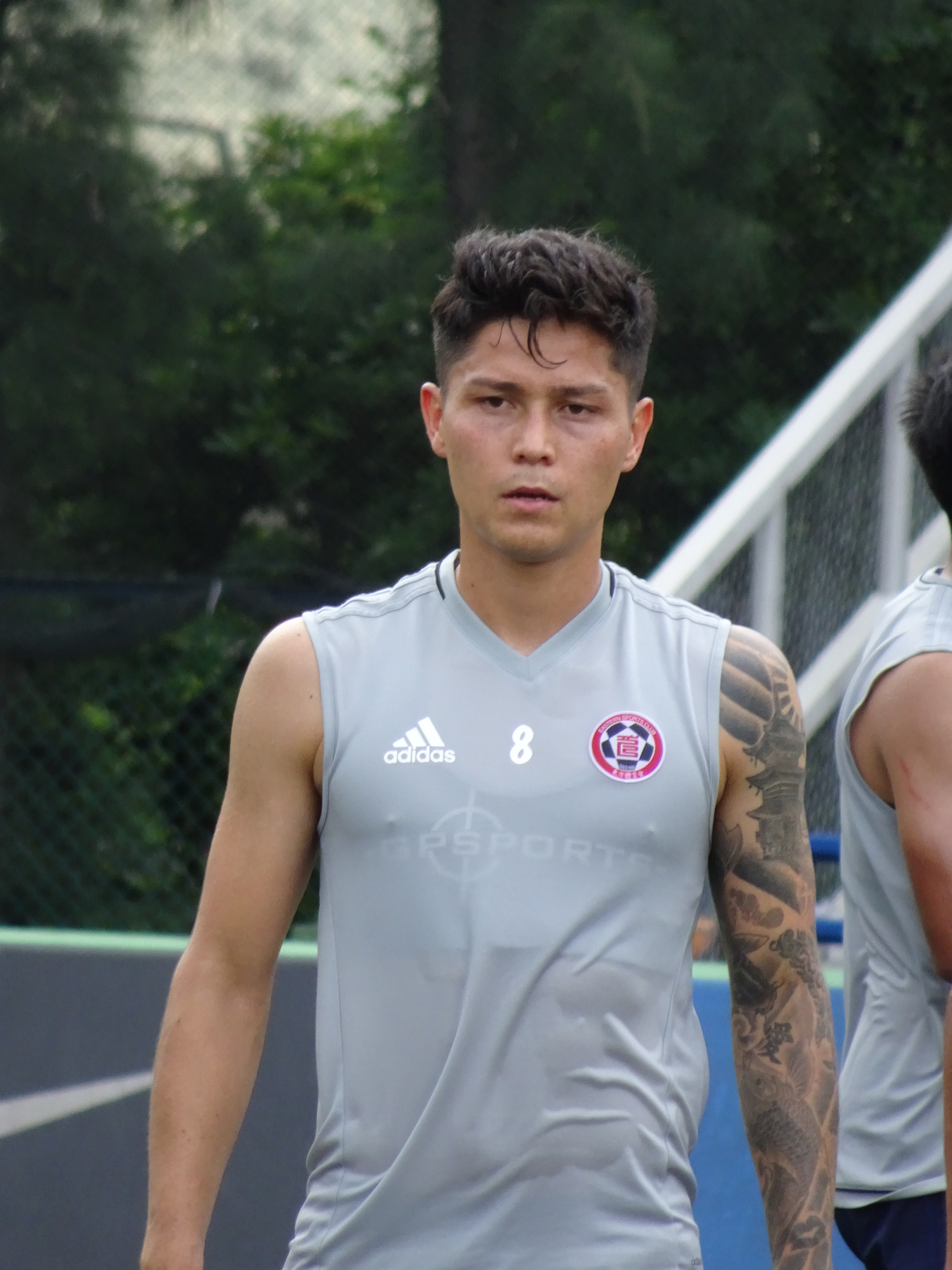 Robson Vaz Shimabuku (19 July 2018, Eastern AA training, King's Park Sports Ground)